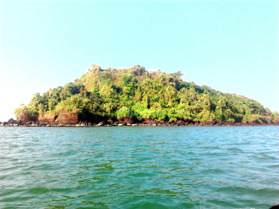 South east part of the island.view from 100mtr away